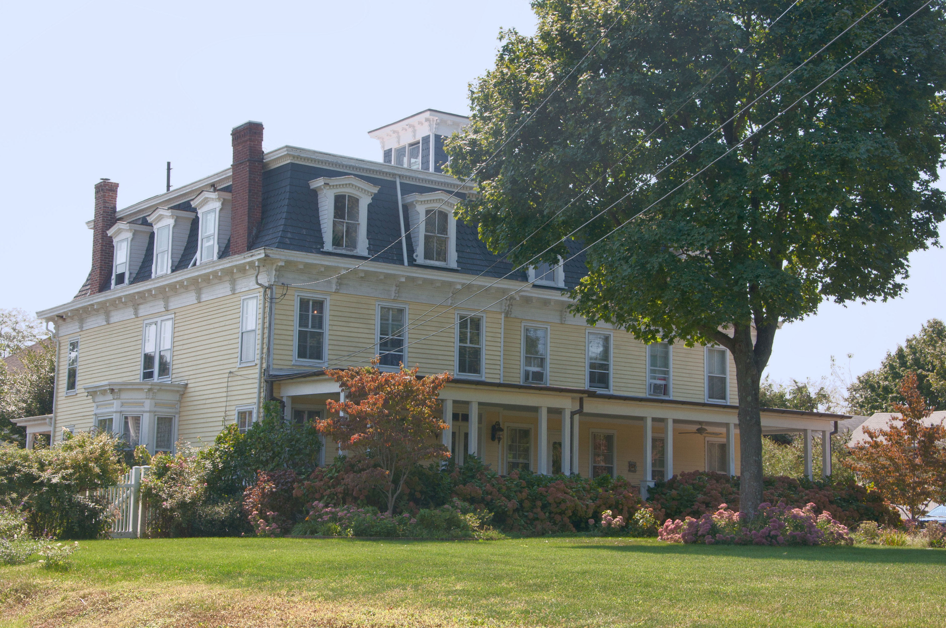 The Carll S. Burr Mansion, as seen from Burr Road in Commack, New York.